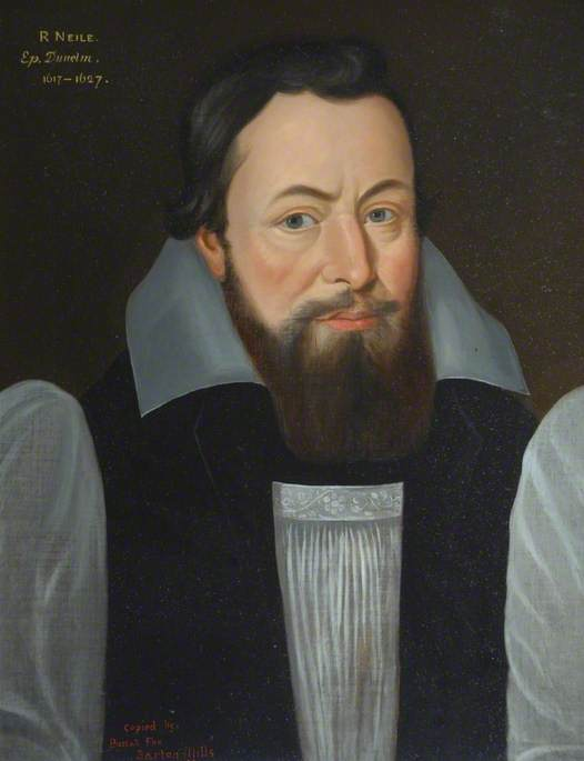 Richard Neile (1562-1640), Bishop of Durham (later Archbishop of York)